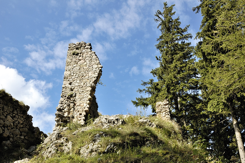 Vršatec Castle